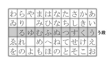 U-vowel row of Hiragana う段在日語五十音圖中的位置。